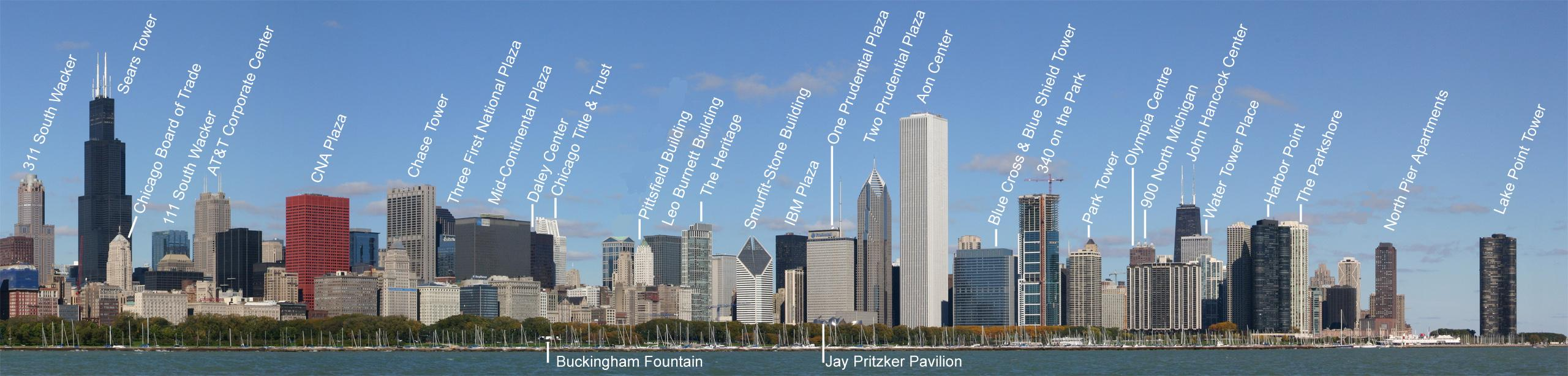 uploaded from